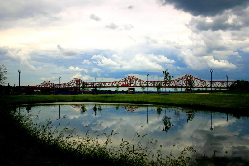 Murray Baker Bridge from Riverfront Park in East Peoria. Photo Taken by Jay Babin Canon Digital Rebel